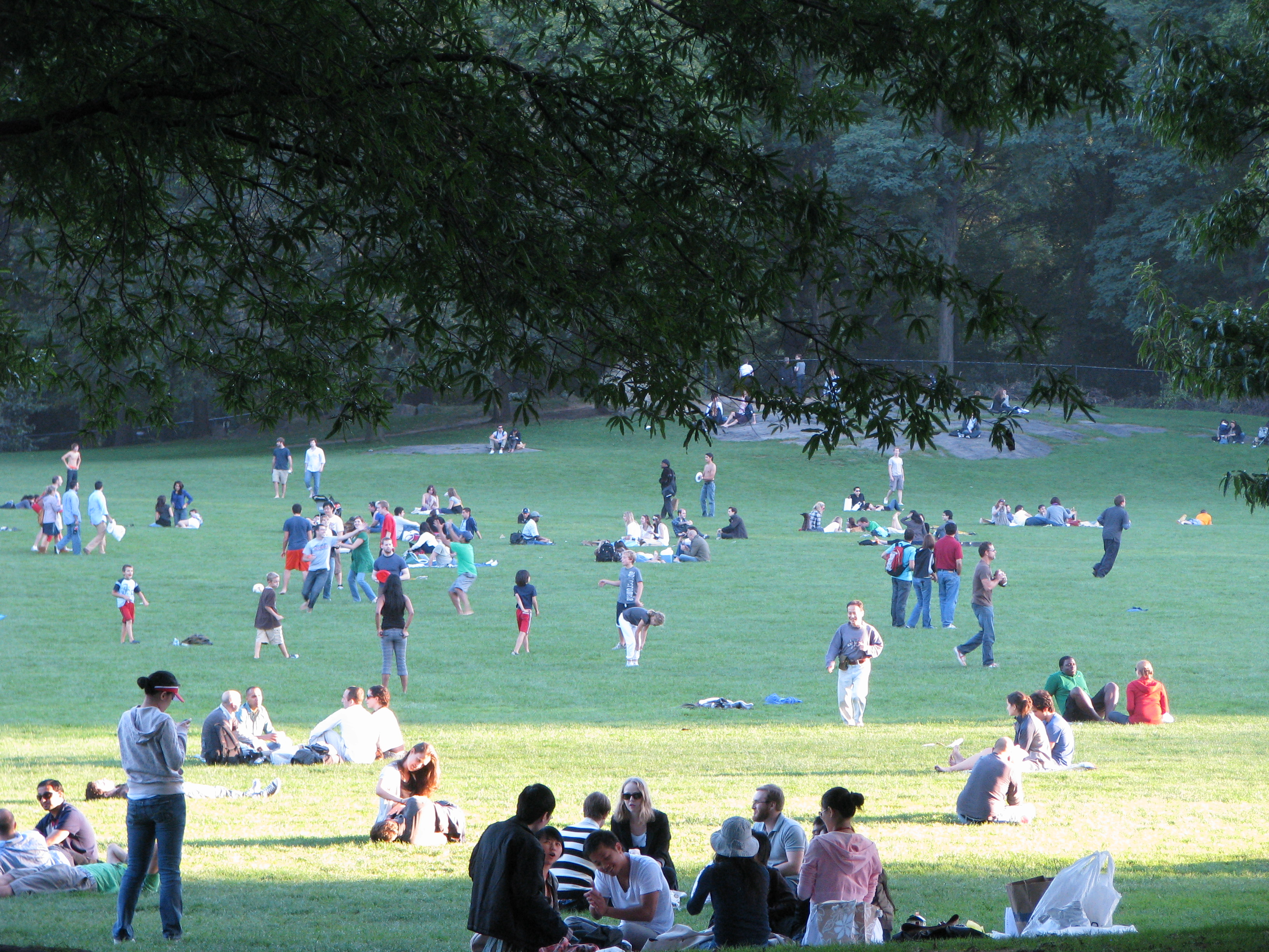 Central park(New York)